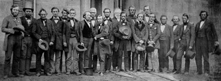 Oberlin rescuers standing outside of the Cuyahoga Co. Jail, 1859